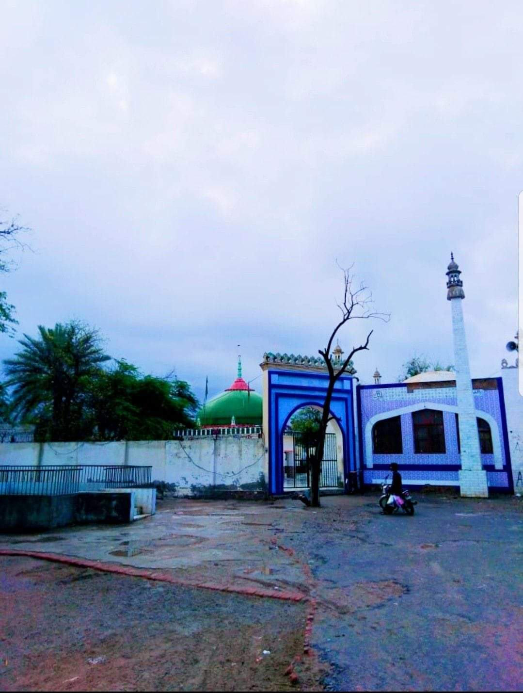 DARBAR SHARIF HAZRAT SAKHI SHAH SULEMAN